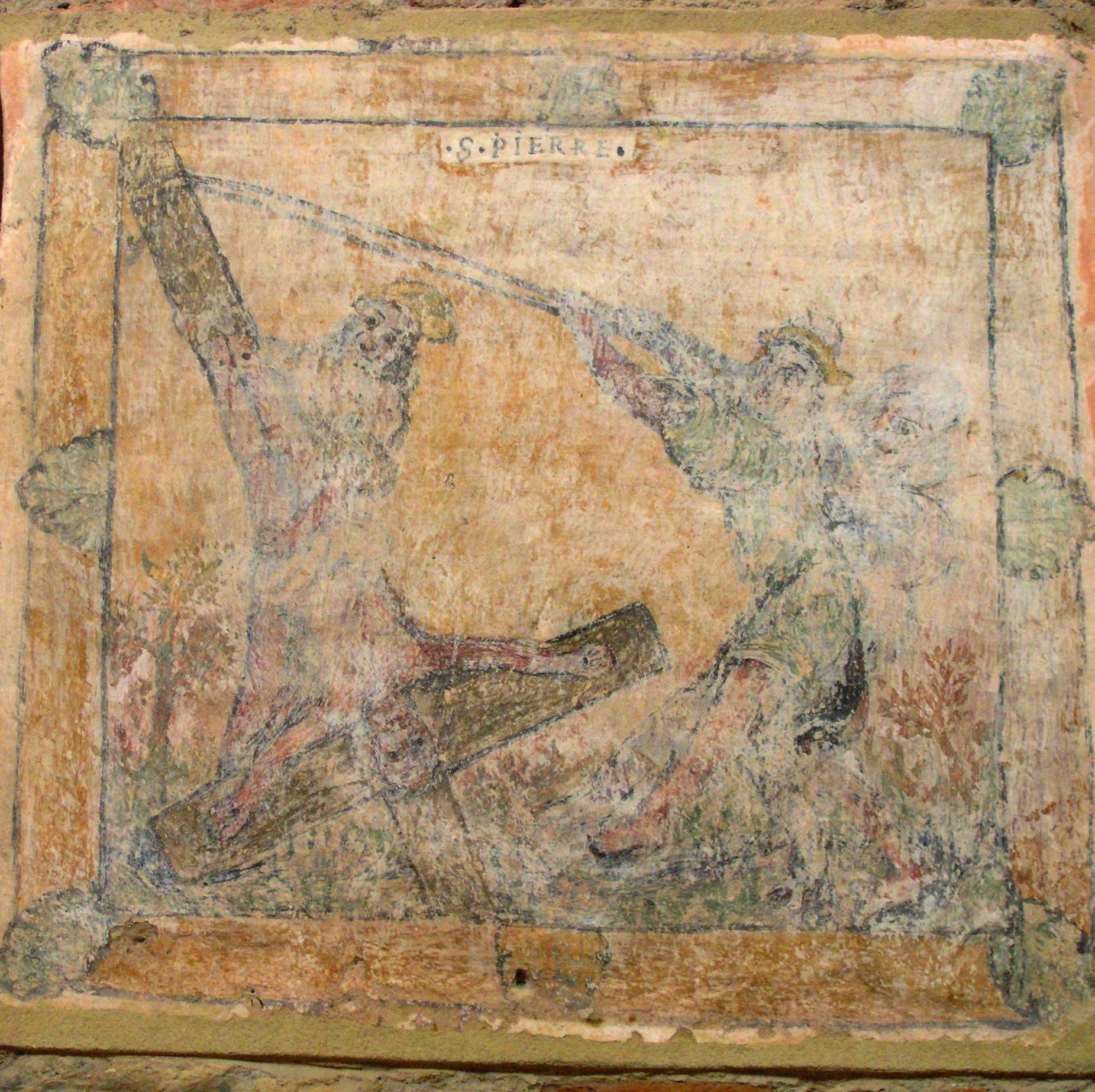 affresco,candia Canavese